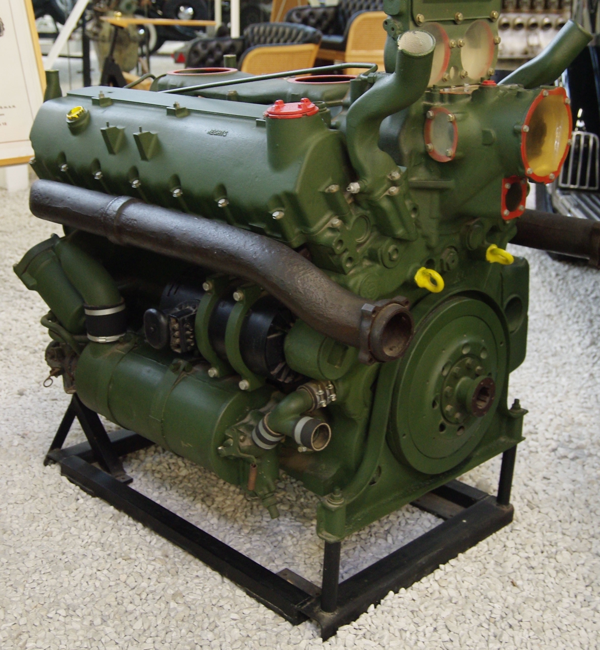 Maybach HL 230 in TechnikMuseum, Sinsheim, Germany